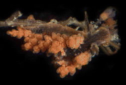 Photo of Doto chica on substrate.